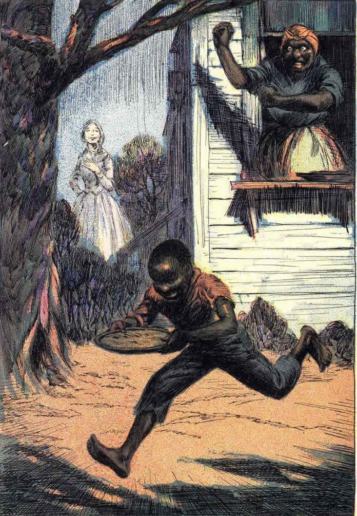 A romanticized drawing of the pre-Civil-War South. A black boy escapes with a pie left to cool on the window while the cook shouts at him.